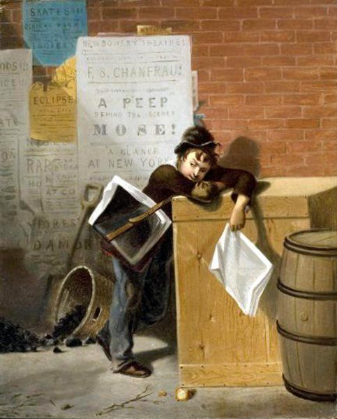 The Weary Newsboy by James Henry Cafferty, oil on canvas, 12 3/8 x 9 7/8 in.; 31.4 x 25.1 cm Palmer Museum of Art